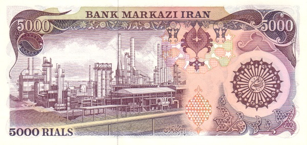 5000 IRR banknote (1981 issue)